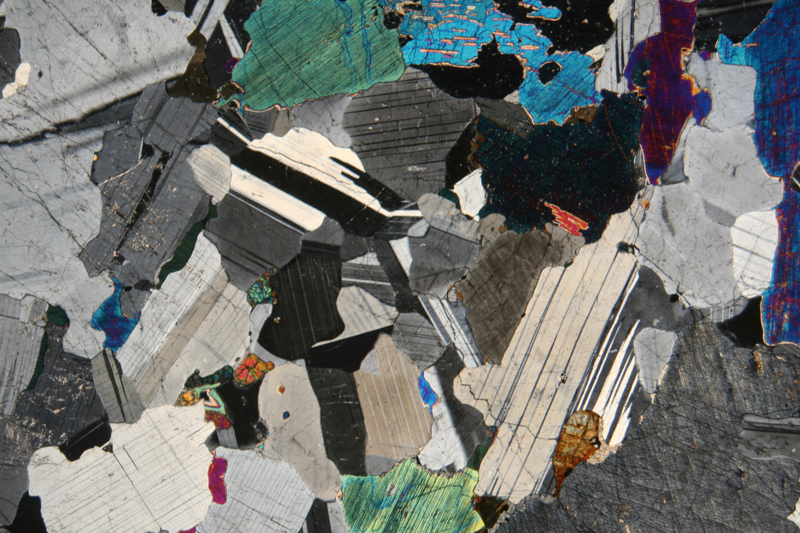 Siim Sepp, 2006 Igneous rock gabbro. Photomicrograph with crossed polars. The width of the view is approximately 0,5 cm. Main minerals are plagioclase, clinopyroxene and olivine.